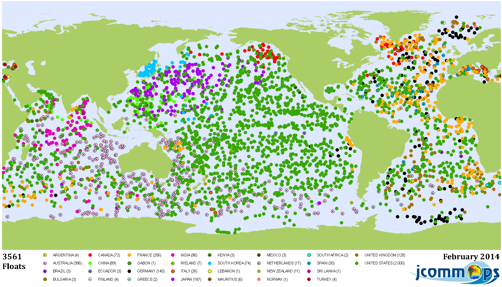 The distribution of Argo floats at the end of February 2014 colour-coded by country that owns the float.